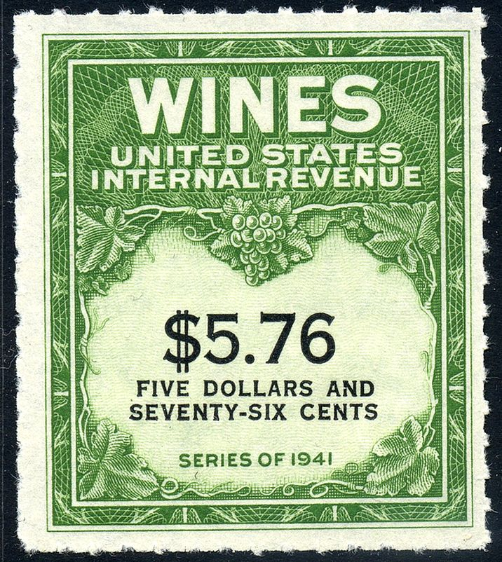 Image of Wine tax stamp, %5,76 1941 issue